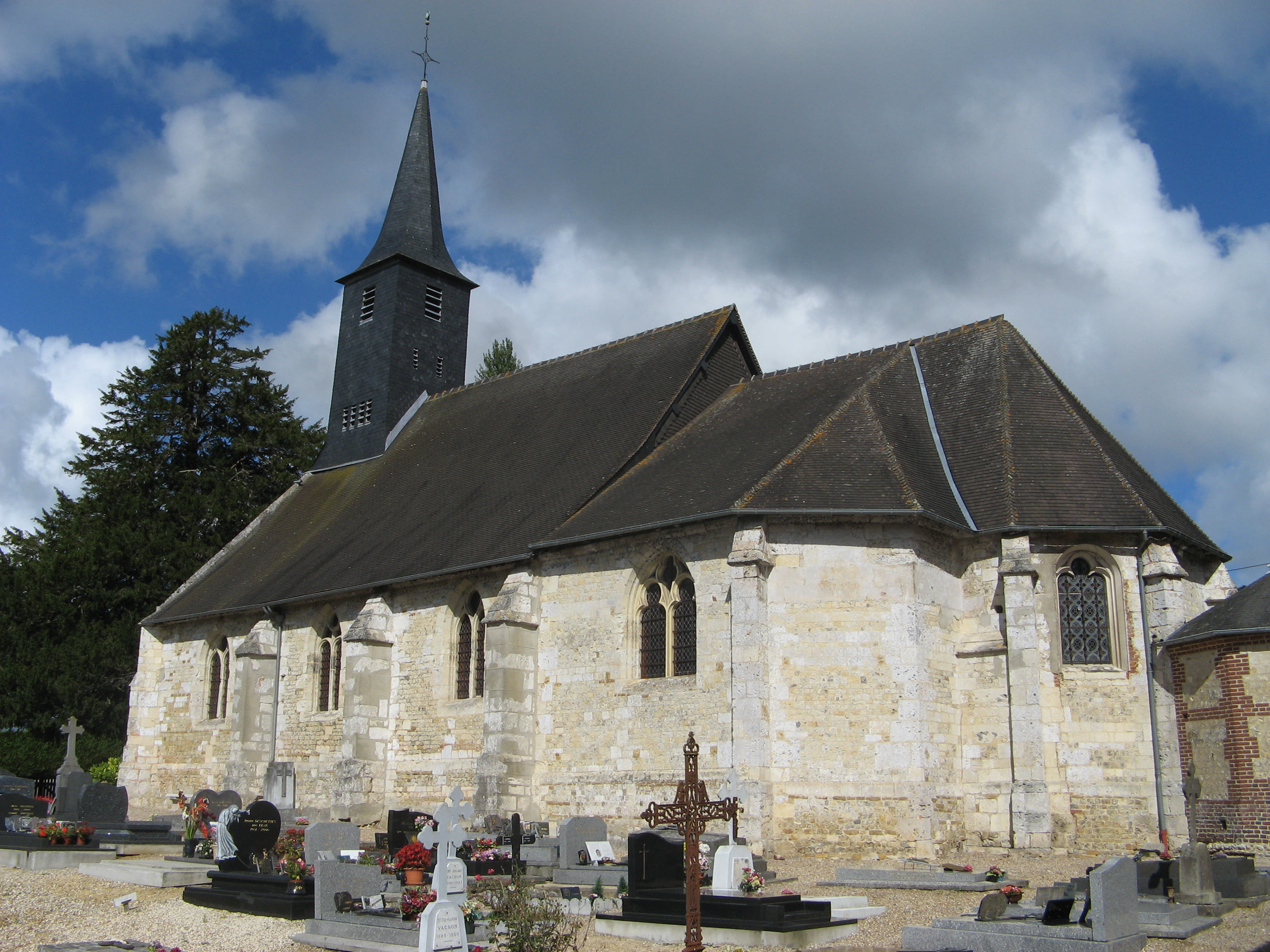 The church of Surville, Calvados